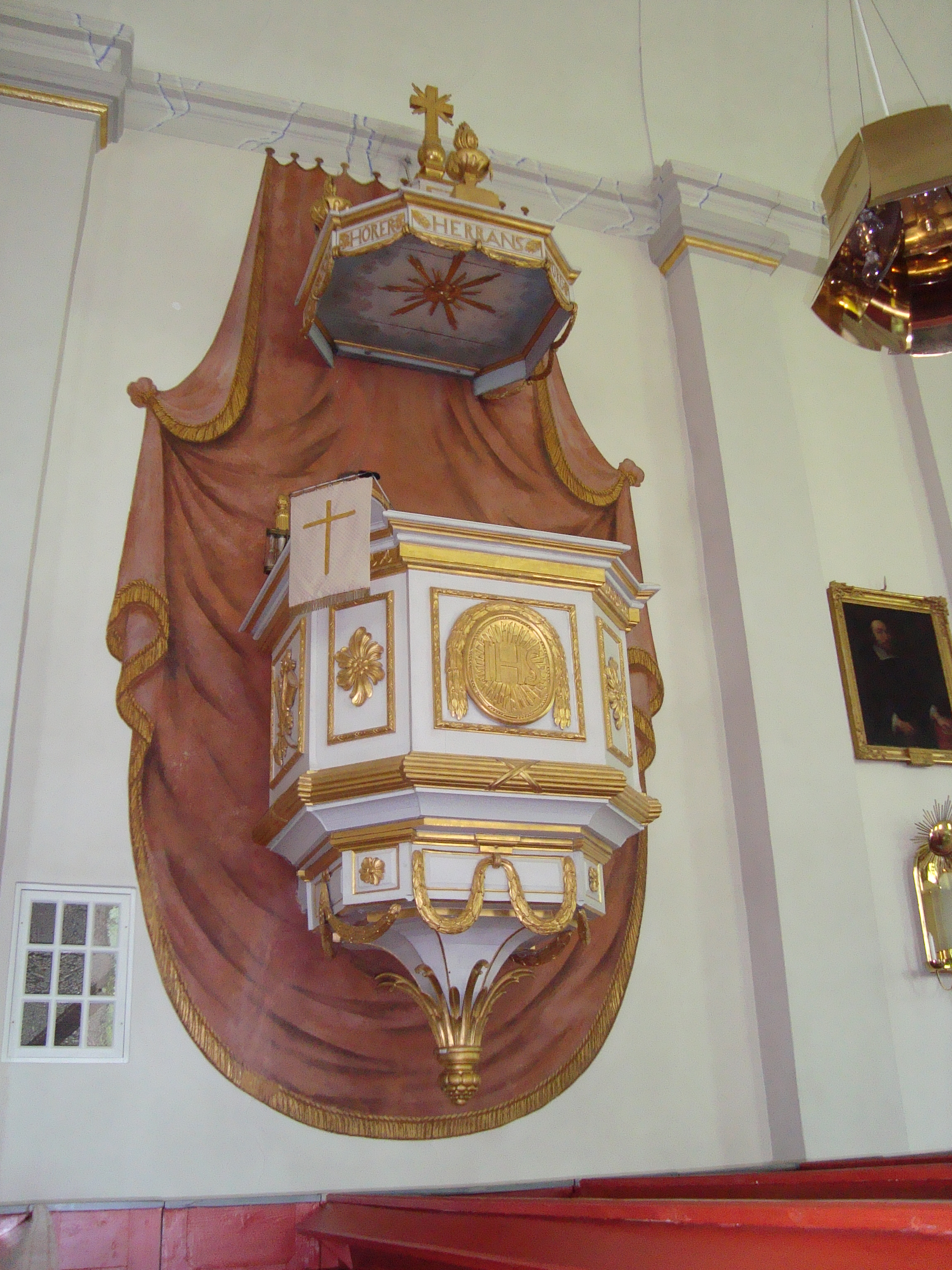 Church of Husby, Hedemora municipality, Sweden